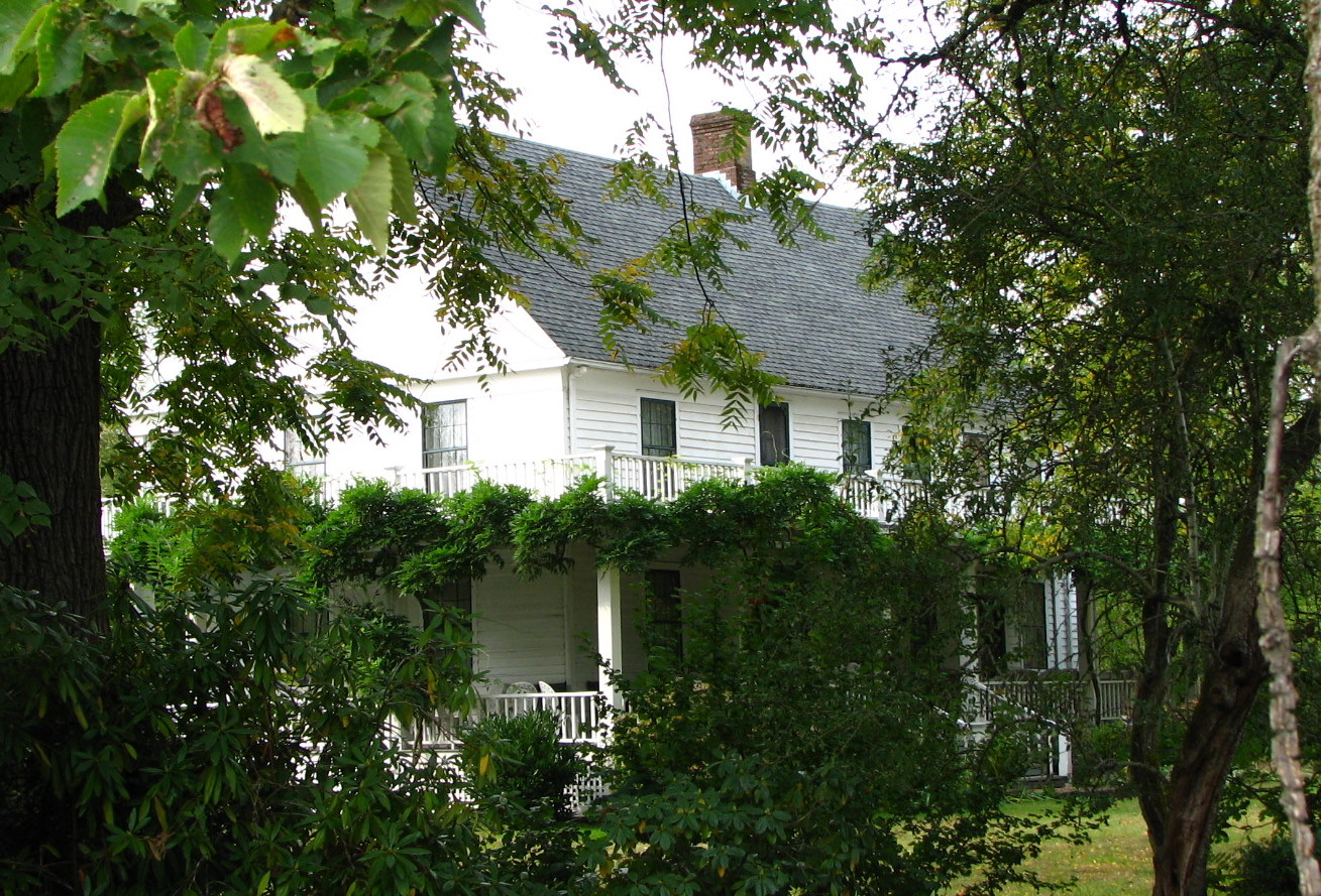 The historic John Sweek House (built 1858), located at 18815 Southwest Boones Ferry Road in Tualatin, Oregon, United States, is listed on the US National Register of Historic Places.